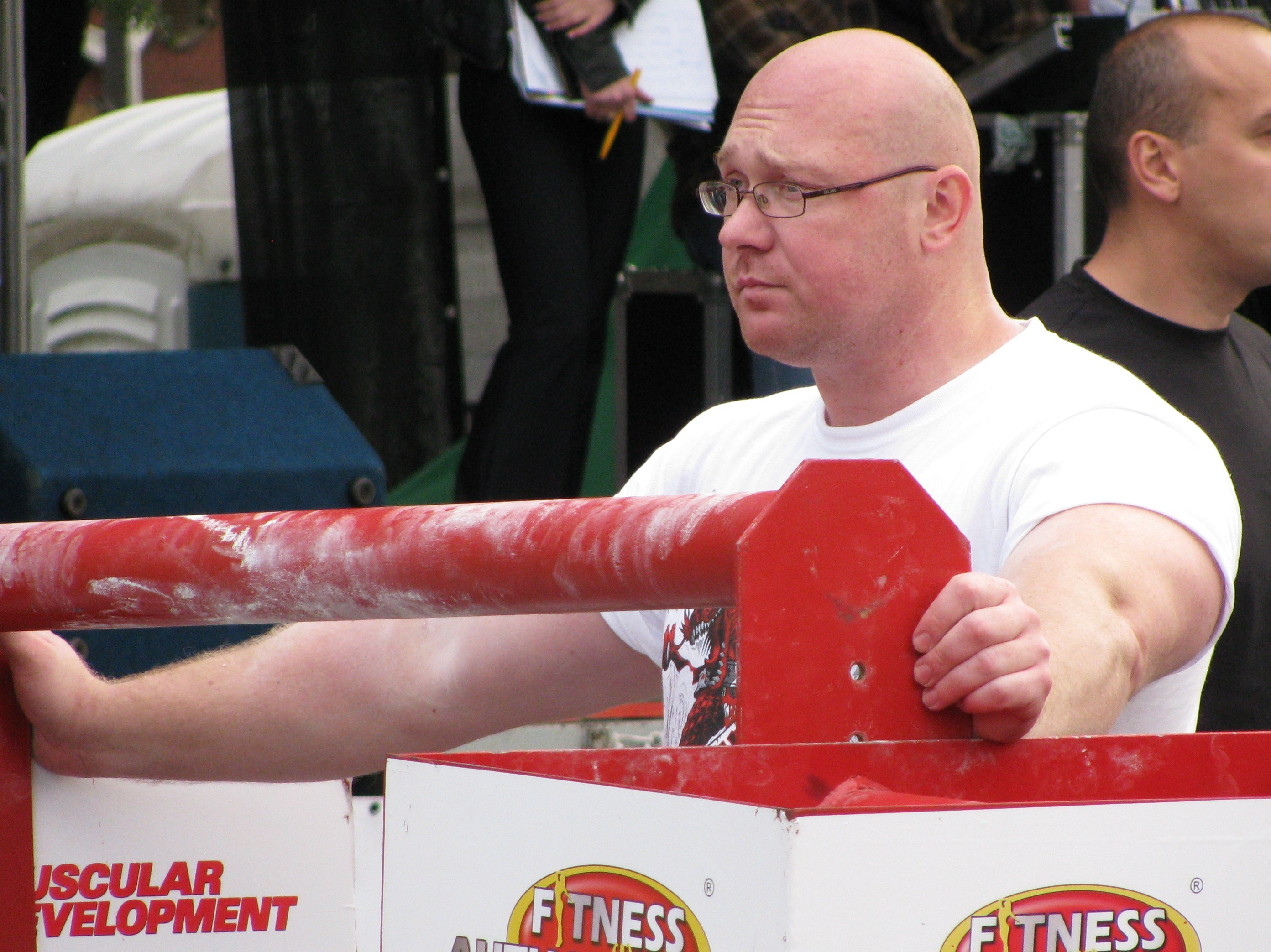 Krzysztof Schabowski - a strength athlete from Poland